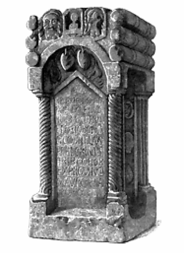 Altar dedicated to the Genius Loci, to Fortune the Home-Bringer, to Eternal Rome, and to Good Fate, found before 1587, Maryport (GB).